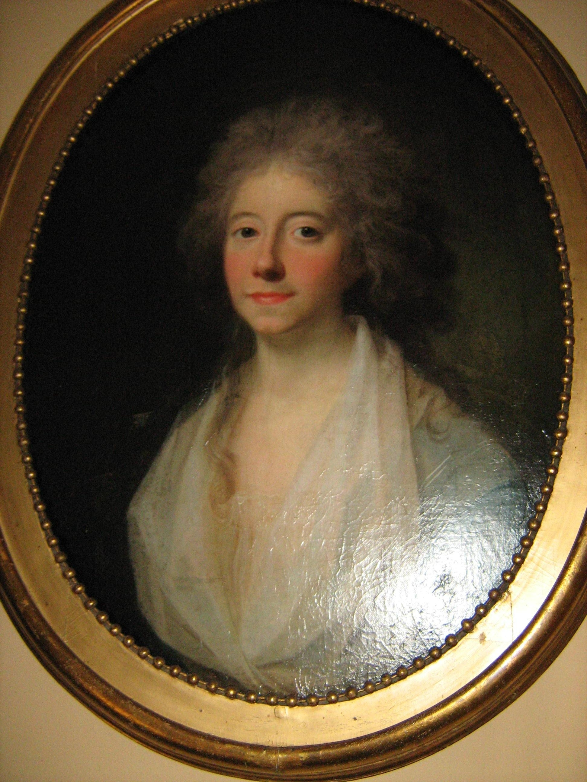 Portrait of Lisa de la Calmette